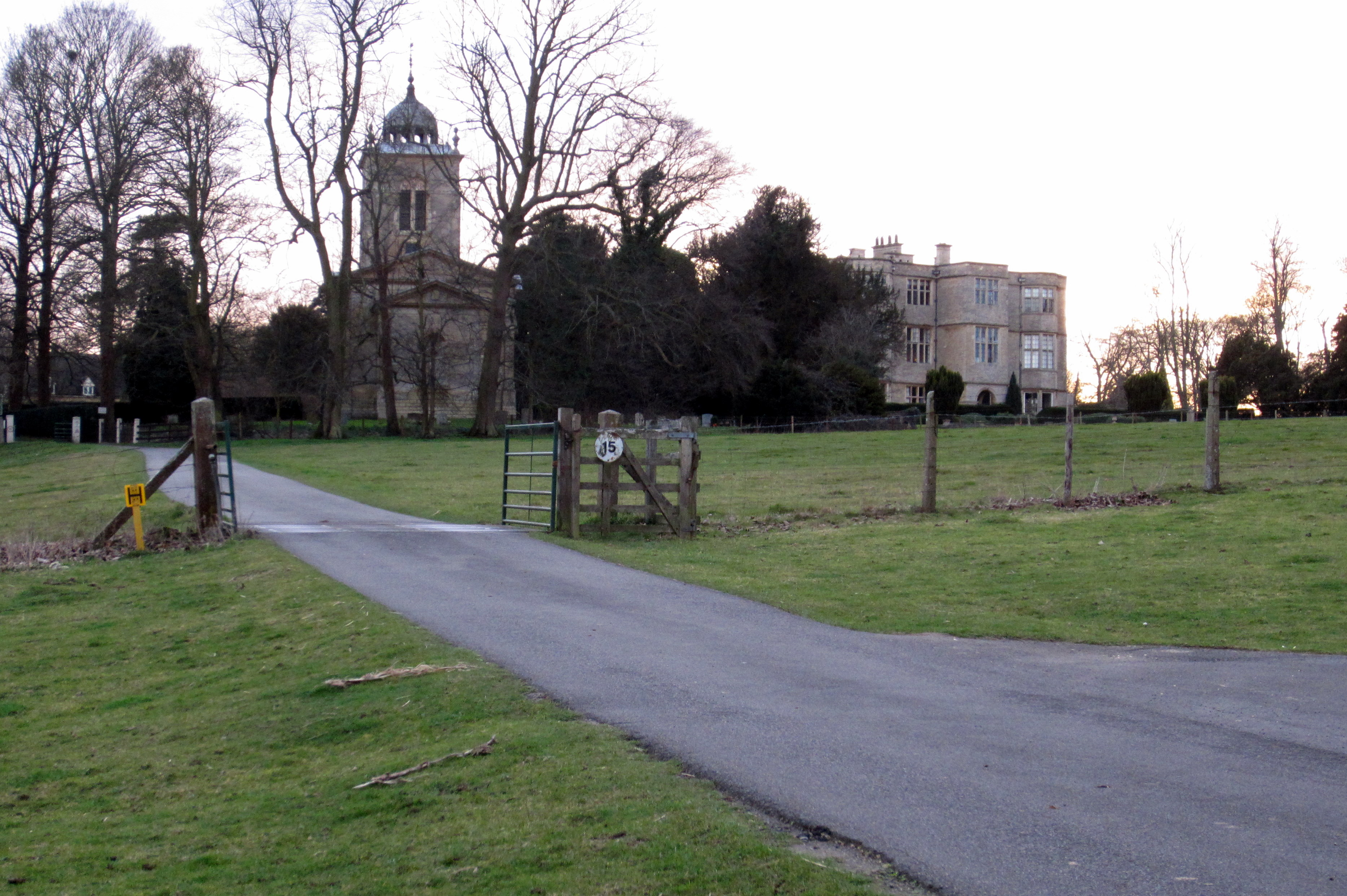 Gayhurst House and Church